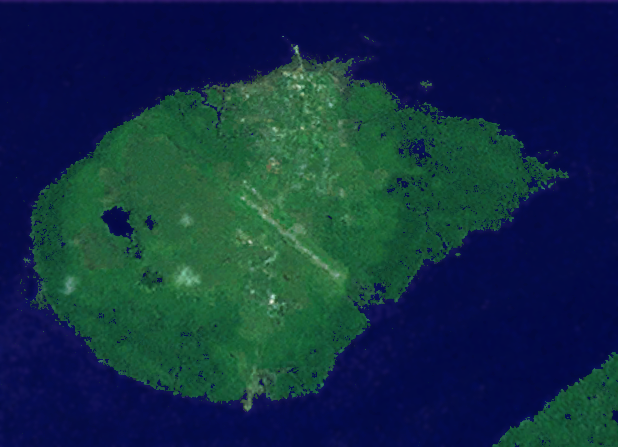 NASA World Wind image of Daru